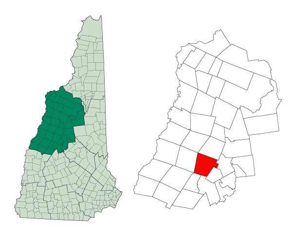 Map of a municipality in Belknap County, New Hampshire